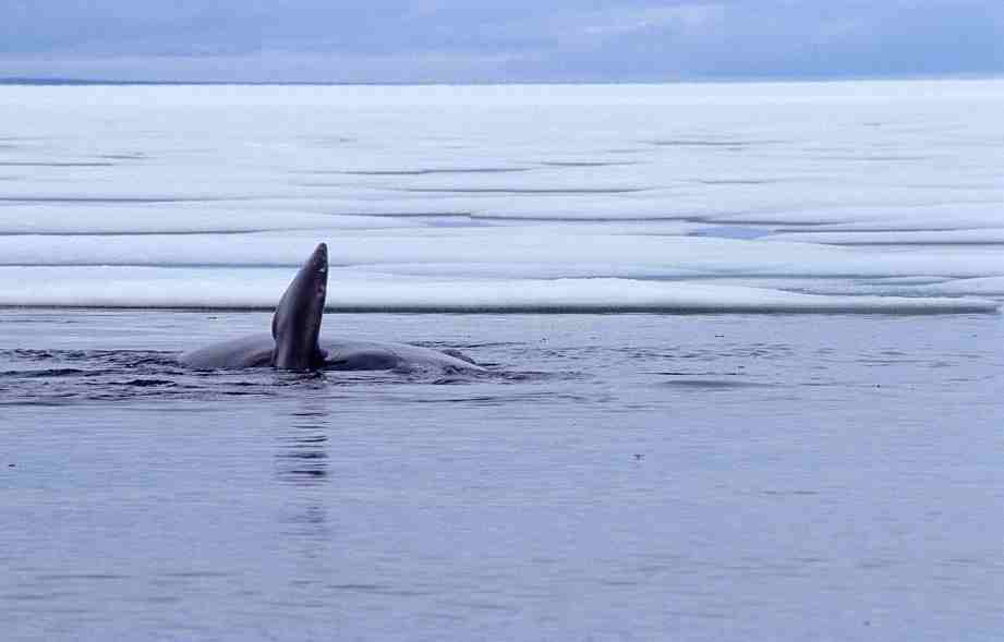 Flipper of bowhead whale (Balaena mysticetus), Foxe Basin (Nunavut, Canada)